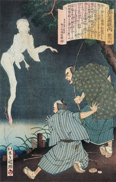 Oitekebori, from the Honjo-nana-fushigi, Woodblock print (nishiki-e); ink and color on paper